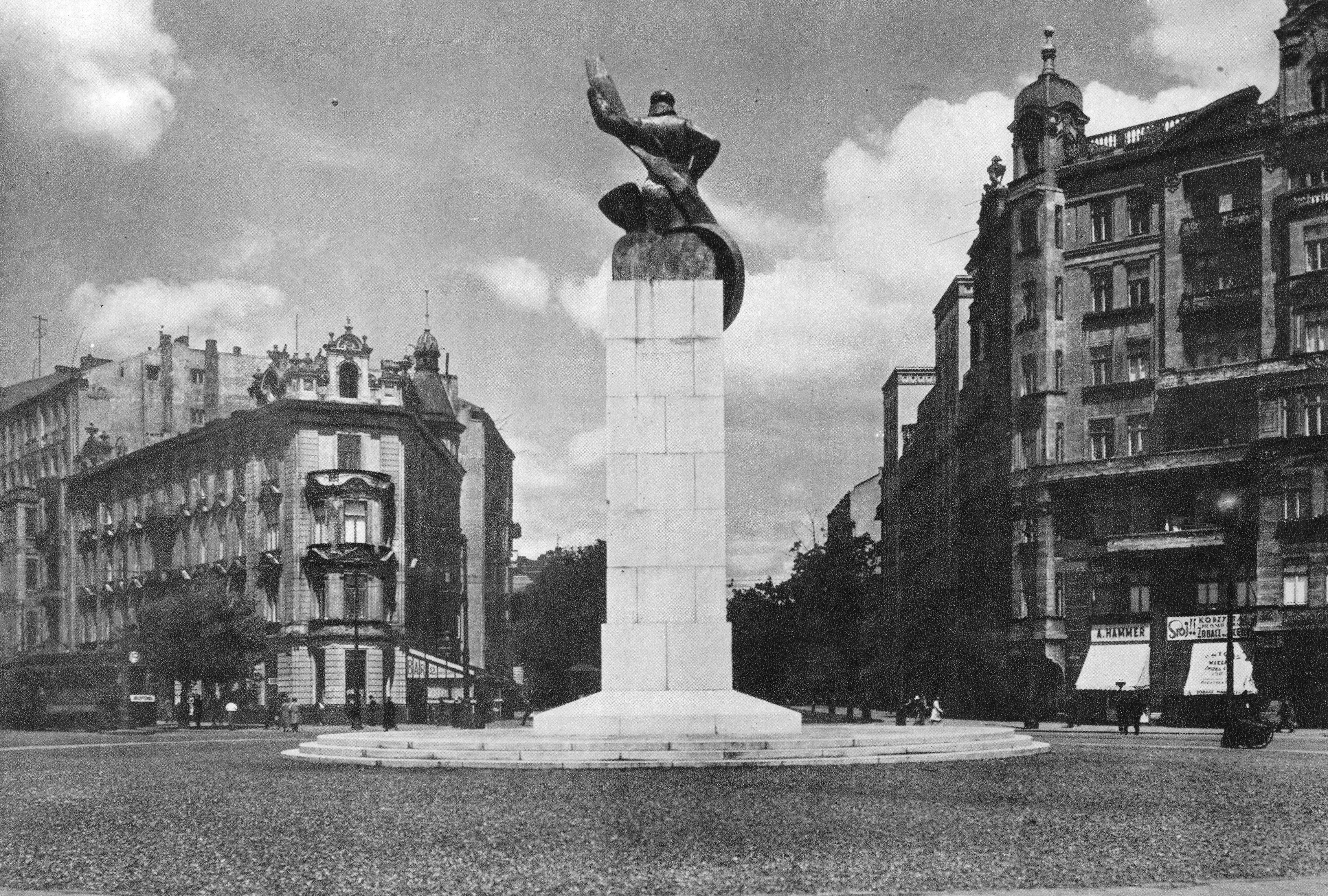 Lotnik Monument in Unia Lubelska Square in Warsaw